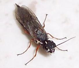 Sawfly, Birch Wood Wasp (Xiphydria mellipes)